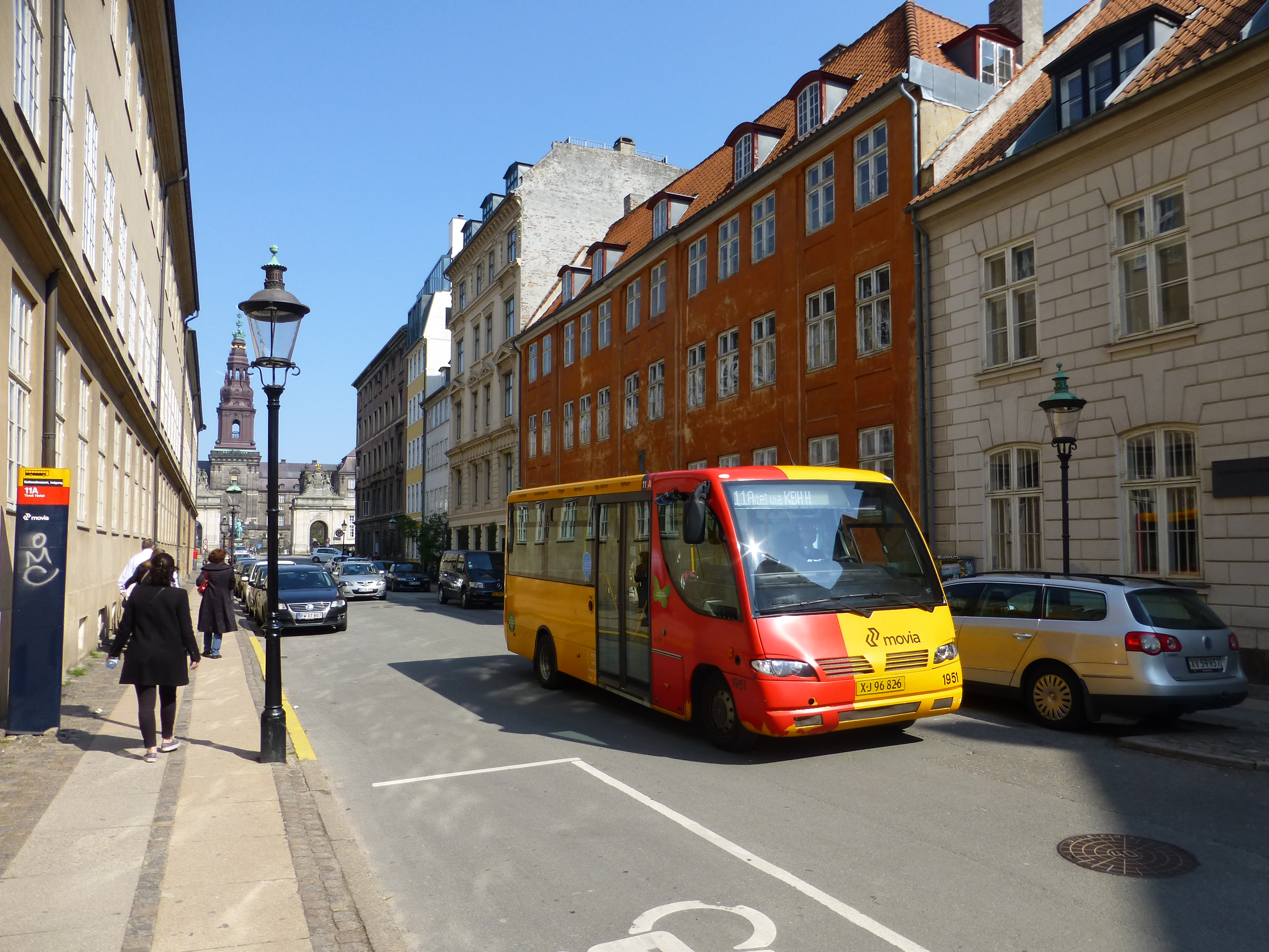 Movia bus line 11A on Ny Vestergade in Indre By in Copenhagen.